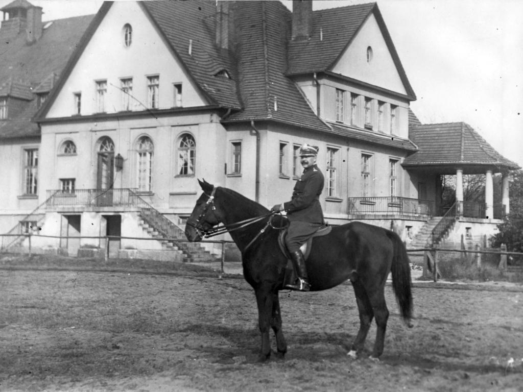 Commandant of the Officer Cadet School for Non-commissioned Officers, Colonel Stefan Kossecki, on a horse against the background of the officers' casino building